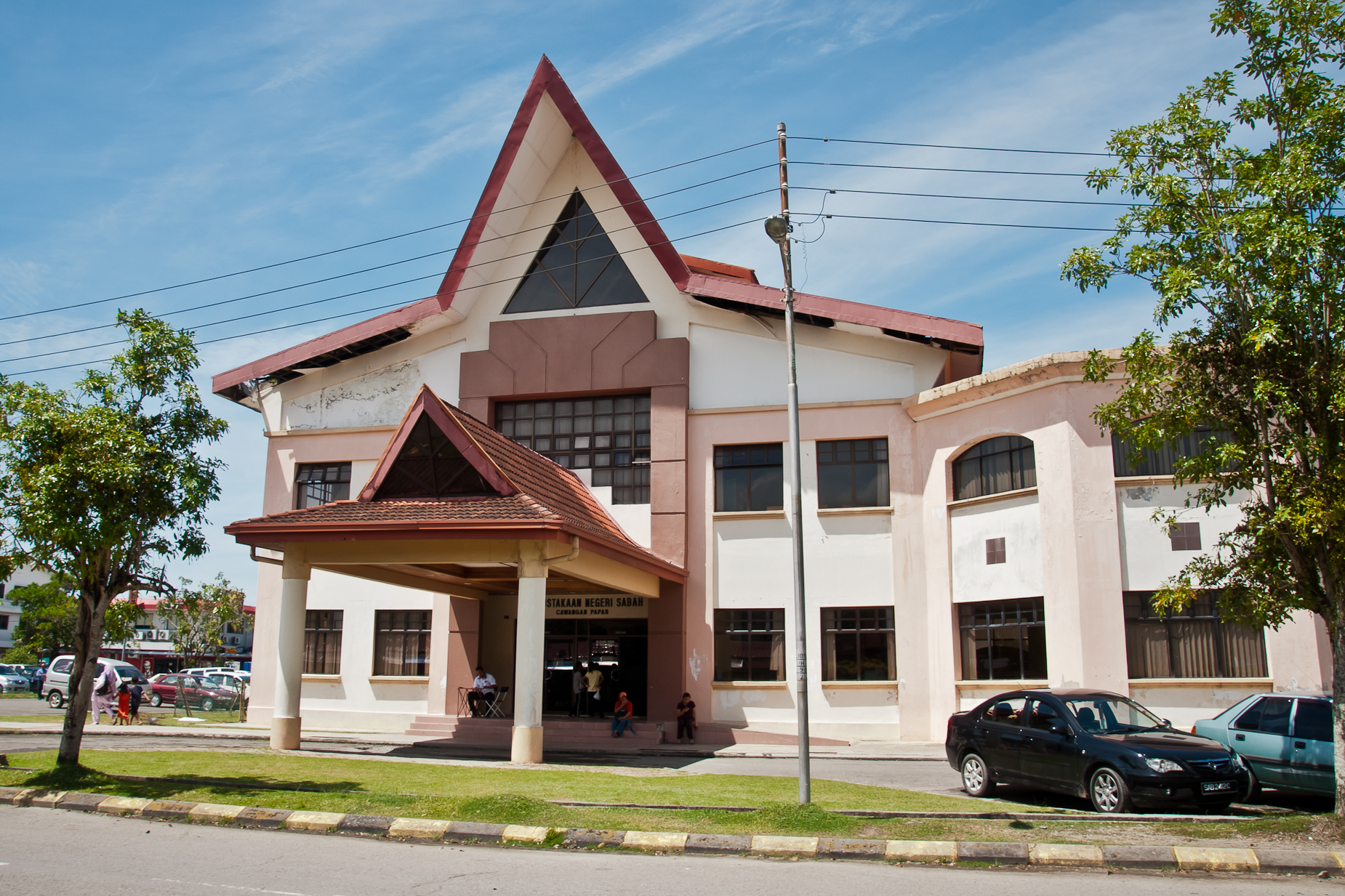 Papar (Sabah), The Public Library